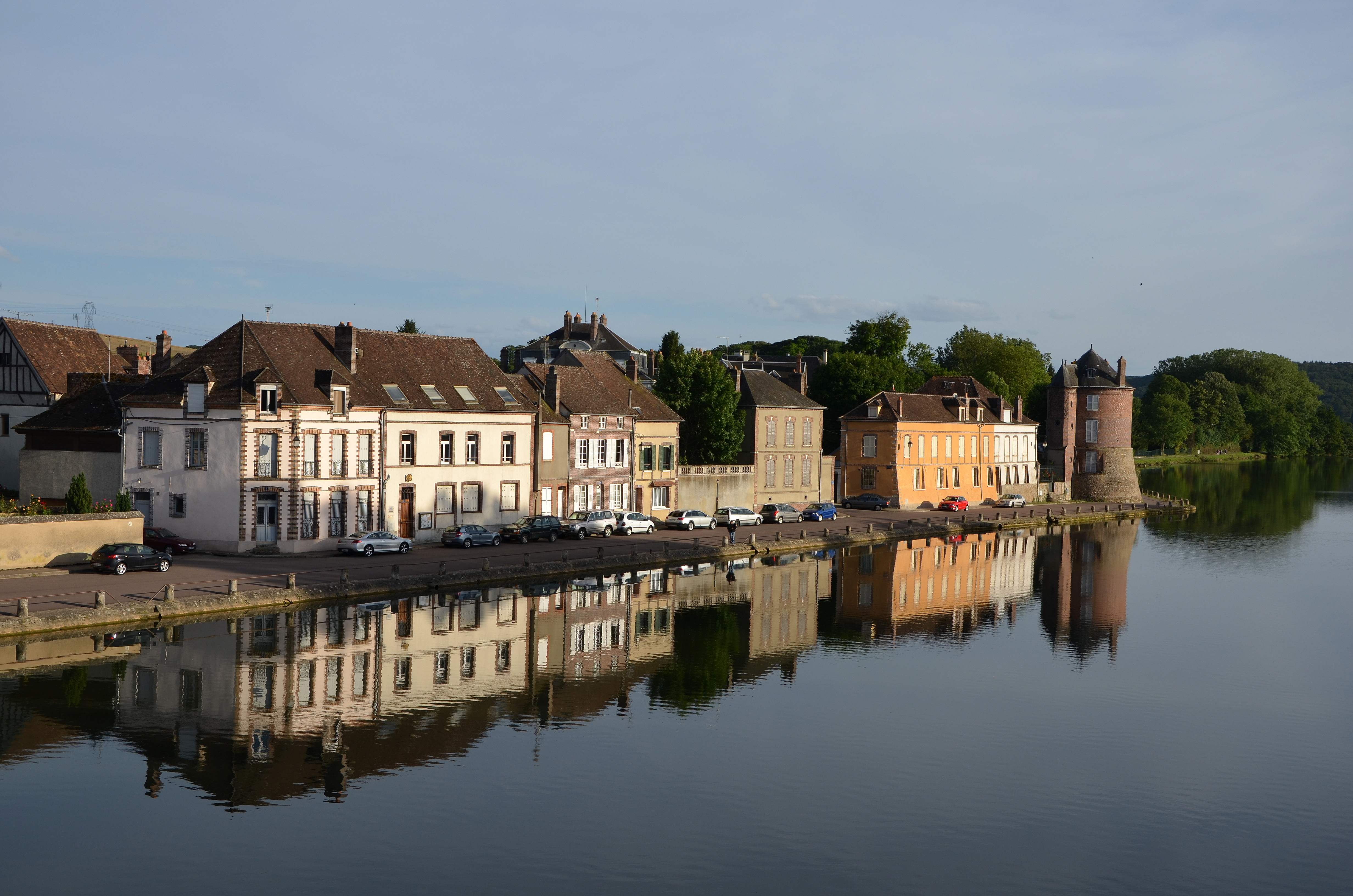 Yonne river in Villeneuve sur Yonne, Yonne, France